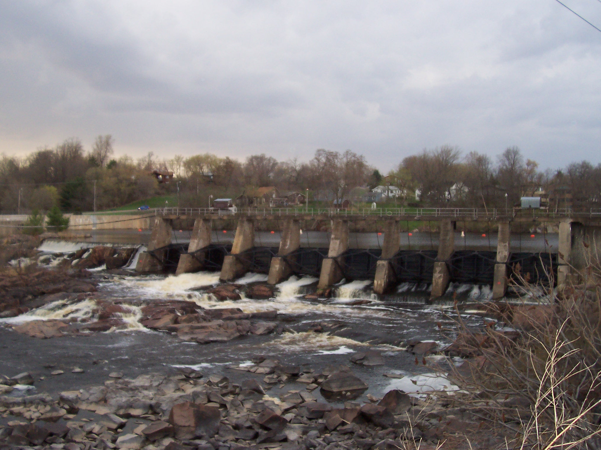 The dam in Black River Falls, Wisconsin on the Black River. Picture taken by me.